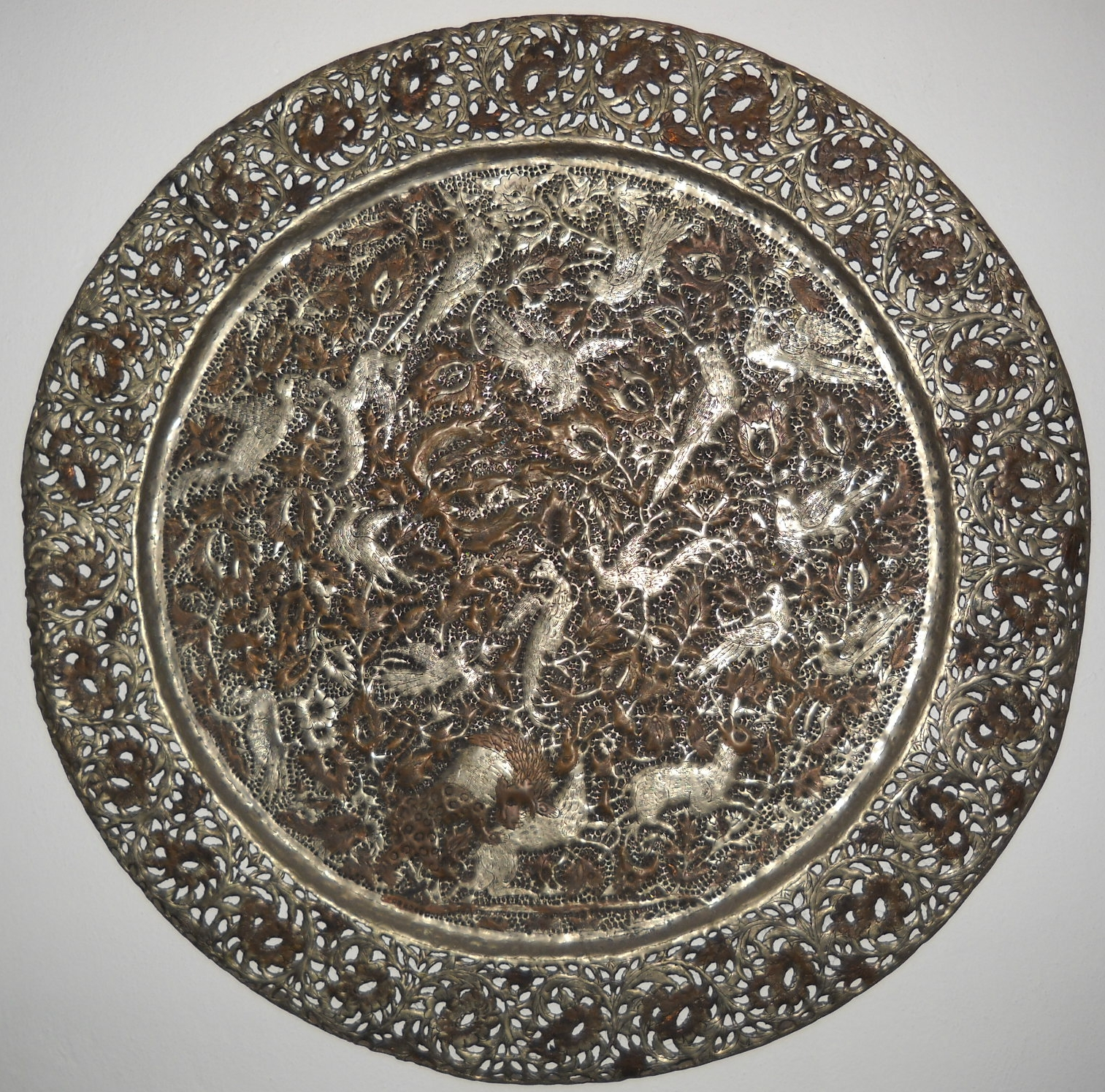 An Anatolian Tray, handmade of copper in the city of Sivas, diameter:79cm. Great work of art with story telling details.